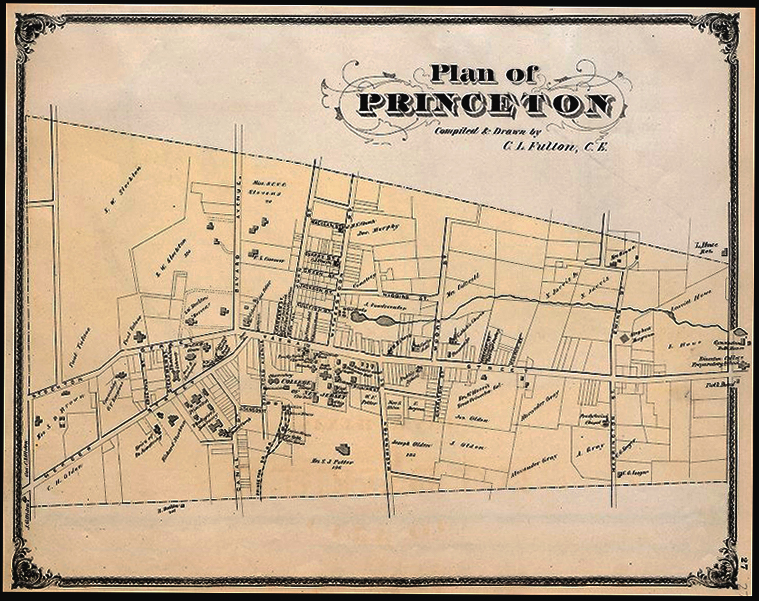 This was a map made by the civil engineer and surveyor, C L Fulton of the town of Princeton, New Jersey in 1875.